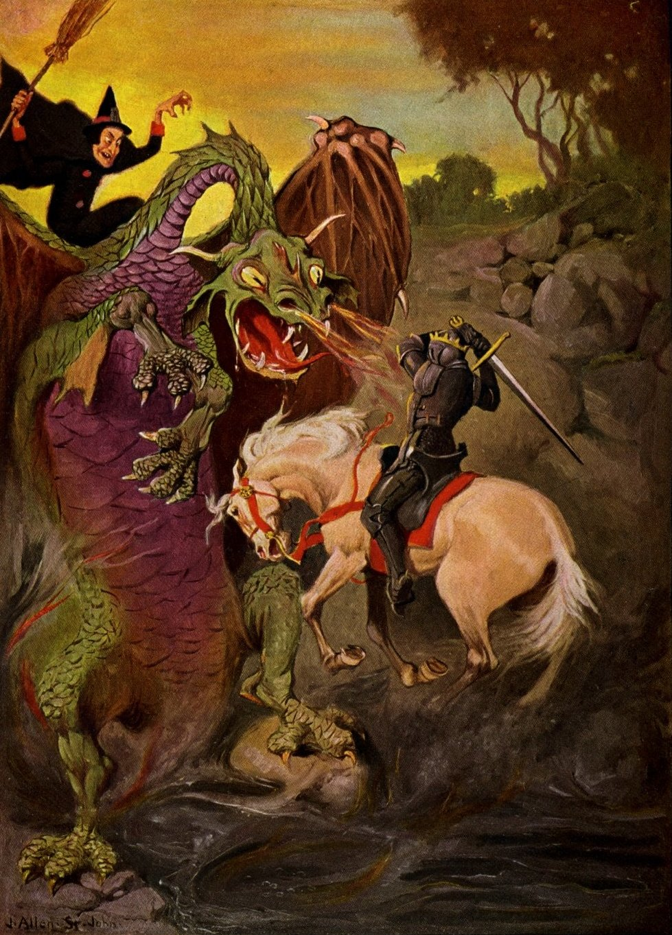 Frontispiece to chapter 12 of 1905 edition of J. Allen St. John's The Face in the Pool, published 1905.